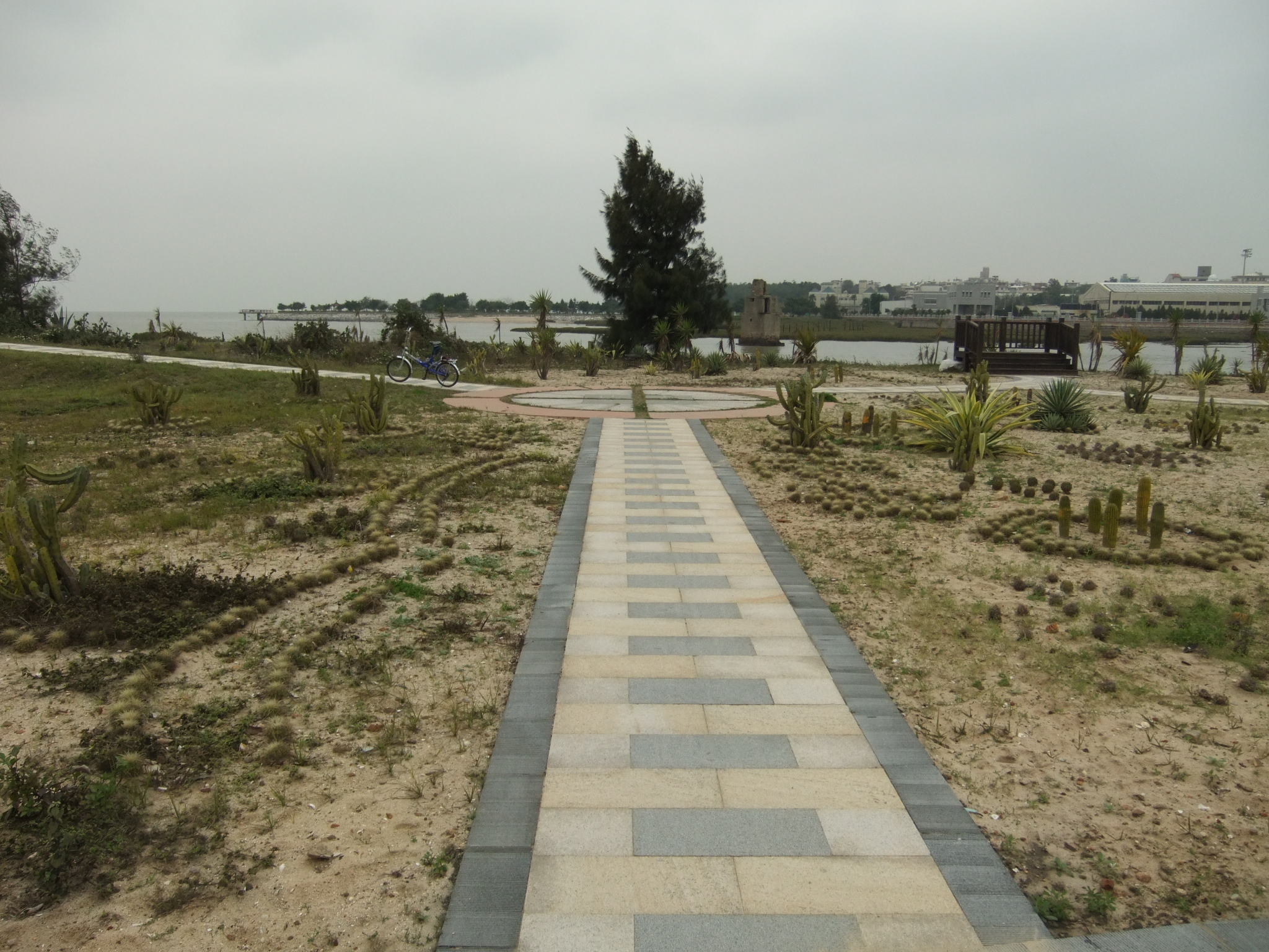 The seaside park of Jincheng Town, Kinmen Island. Cactuses are extensively used for landscaping, perhaps as an extra defensive measure in the case of an enemy landing.